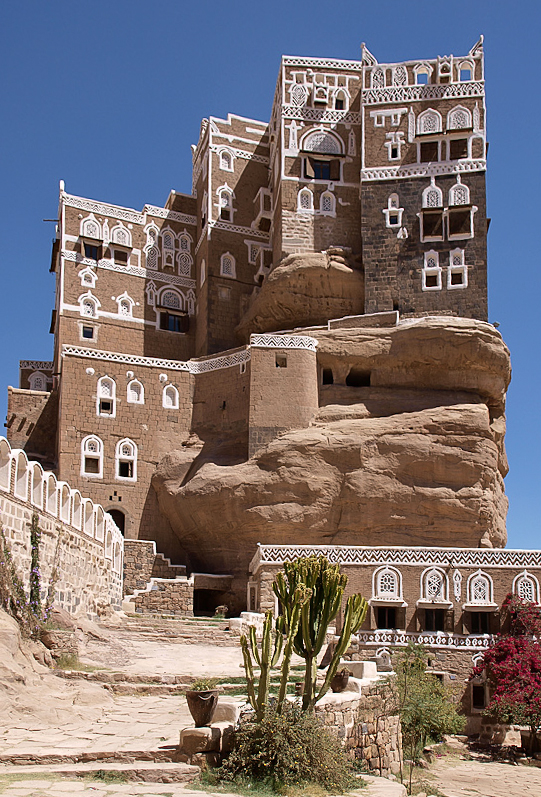 Dar al-Hajar, a mansion built in the 1930's as a summer retreat to Imam Yahya near Sana'a, Yemen.